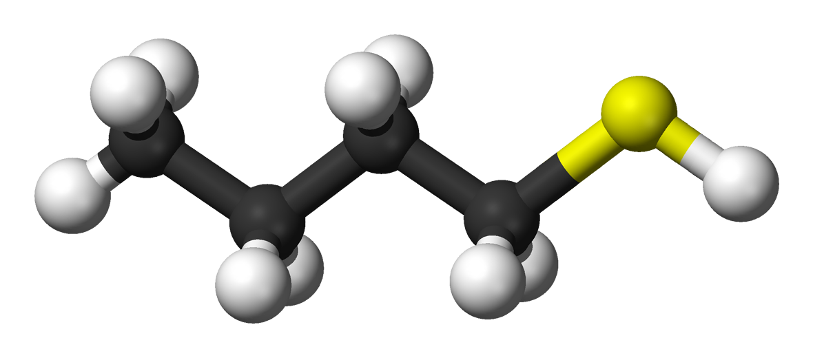 Ball and stick model of the 1-butanethiol molecule.